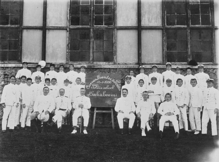 Group portrait in front of the Police Academy